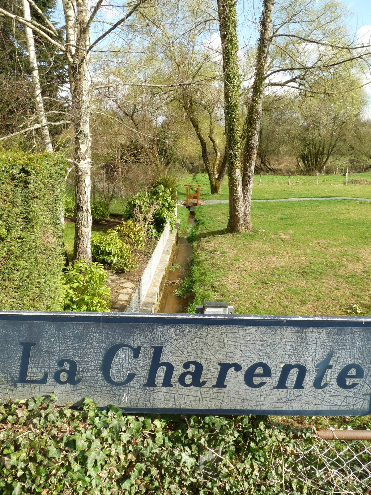 spring of the Charente river, Chéronnac, Haute-Vienne, France